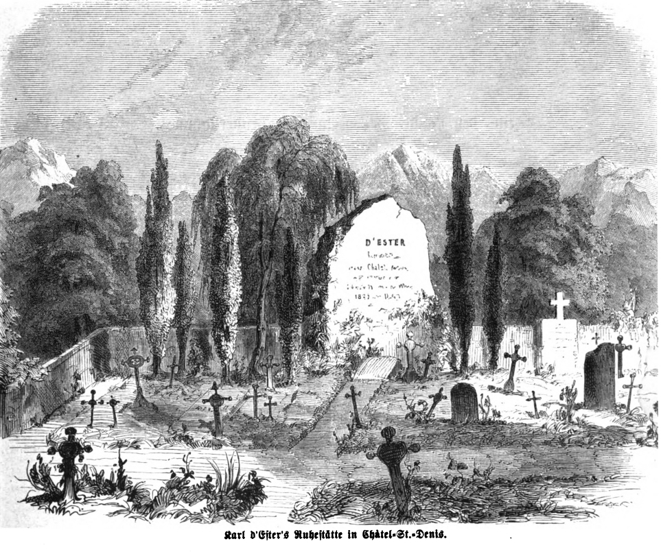 caption: "Karl d’Ester’s Ruhestätte in Châtel-St.-Denis."